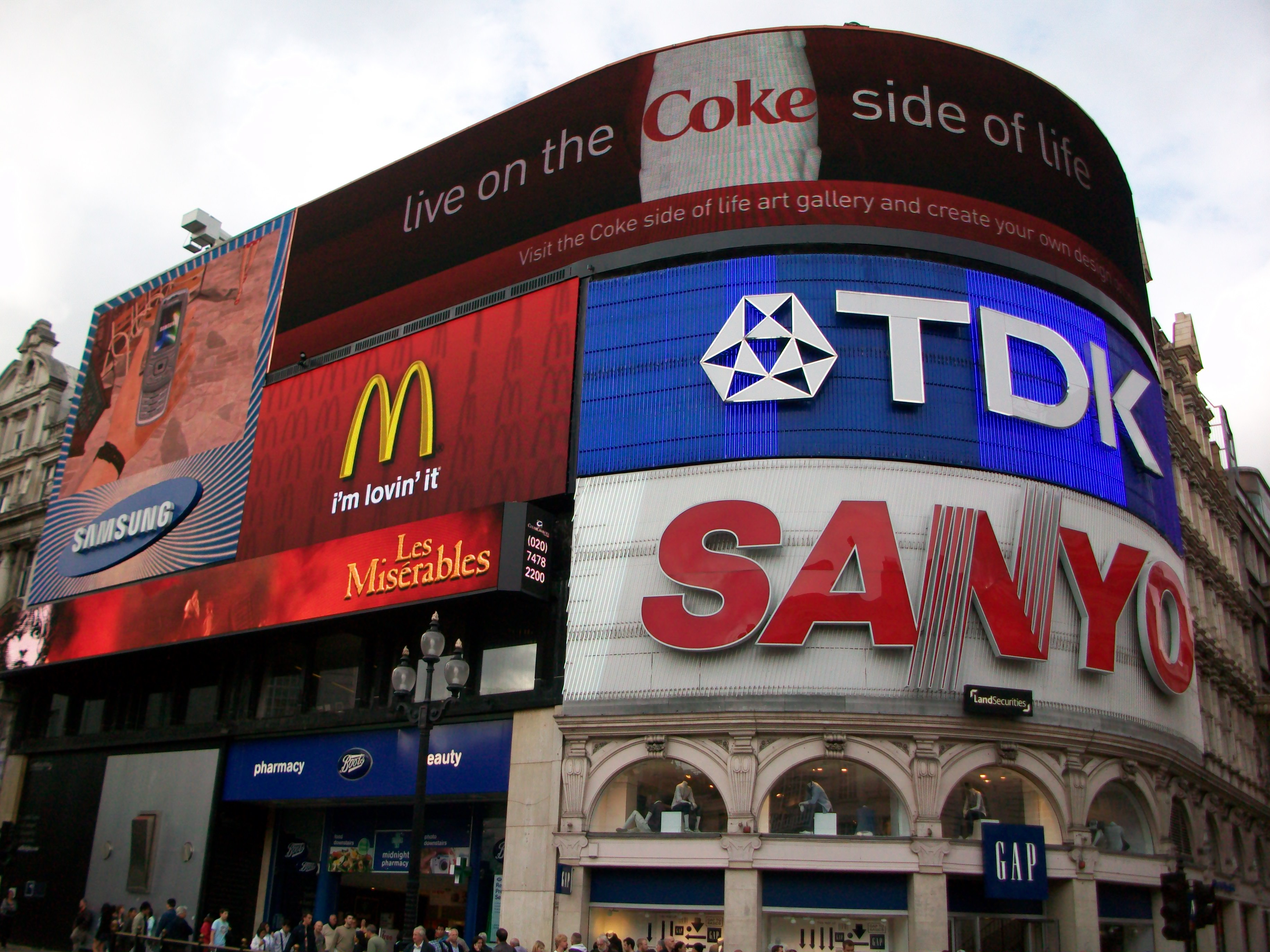 The neon signs in Piccadilly Circus, London. The TDK and Sanyo signs are run by neon lamps, while the Coca-Cola, Samsung and McDonalds signs are run by LEDs.